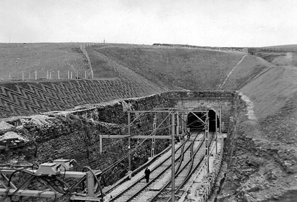 Woodhead New Tunnel, Eastern portal. View from the bridge at Dunsford a few days before the formal opening of the new - electrified - tunnel.